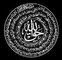 Tawis, naqshbandi emulate for spiritual protection